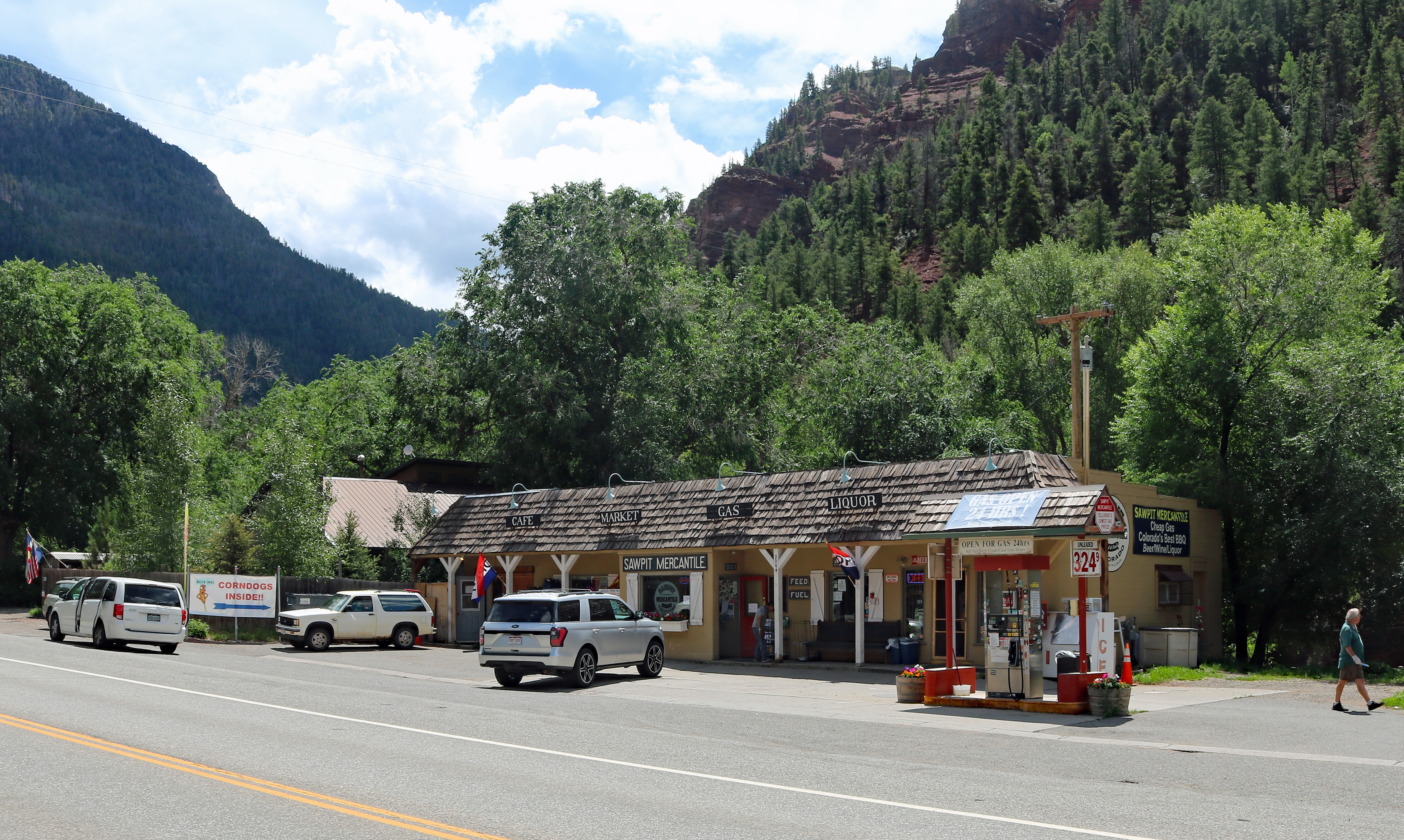 Sawpit Mercantile, a general store, located at 20643 Highway 145 (at mile marker 80) in Sawpit, Colorado 81430.